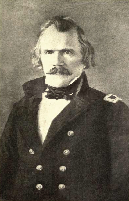 Albert Sidney Johnston, Confederate Army general in the American Civil War